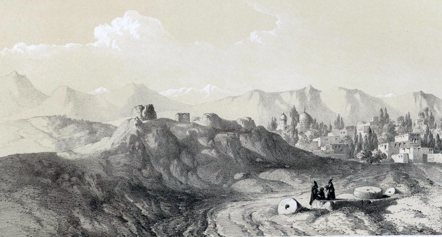 Hamadan